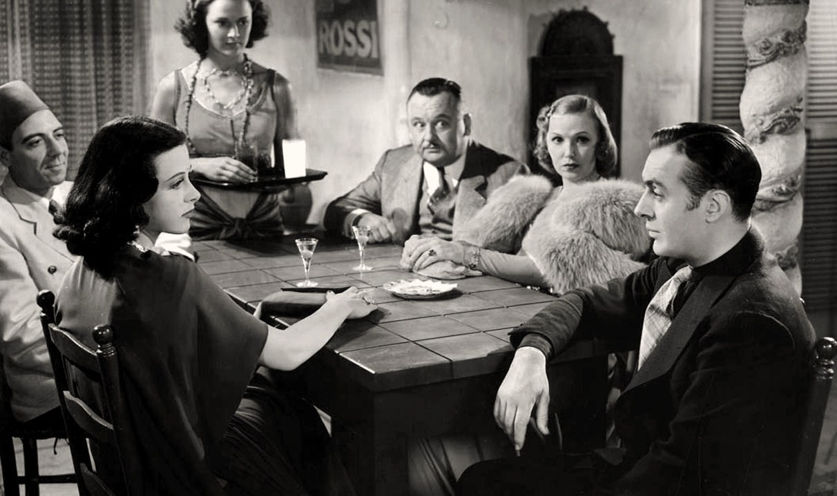 L. to R. (seated): Joseph Calleia, Hedy Lamarr, Bert Roach, Claudia Dell & Charles Boyer in Algiers - publicity still (cropped)